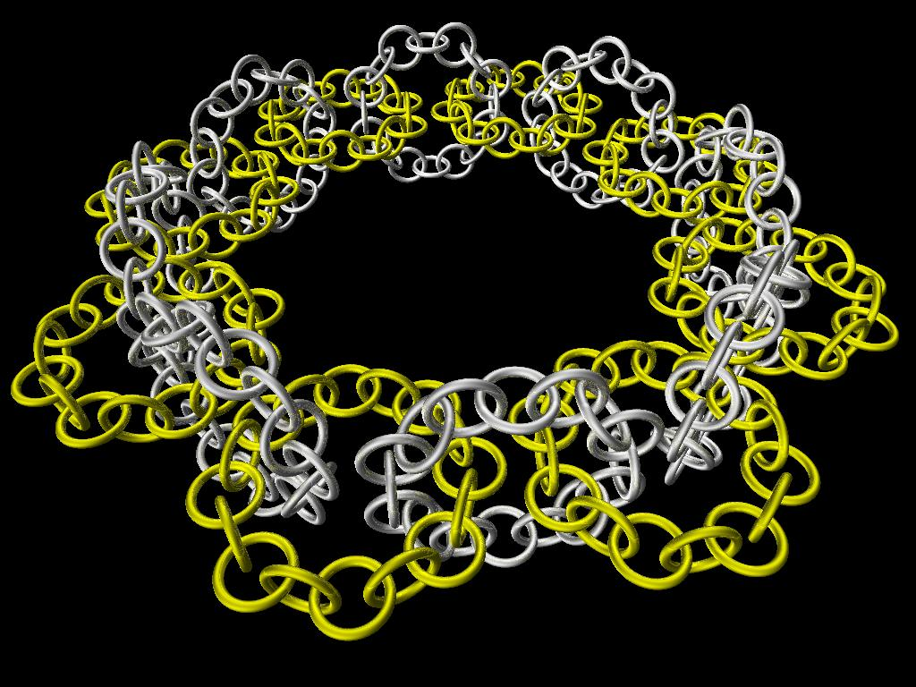 Antoine's necklace. Figure used in topology, in relation with Cantor's set.